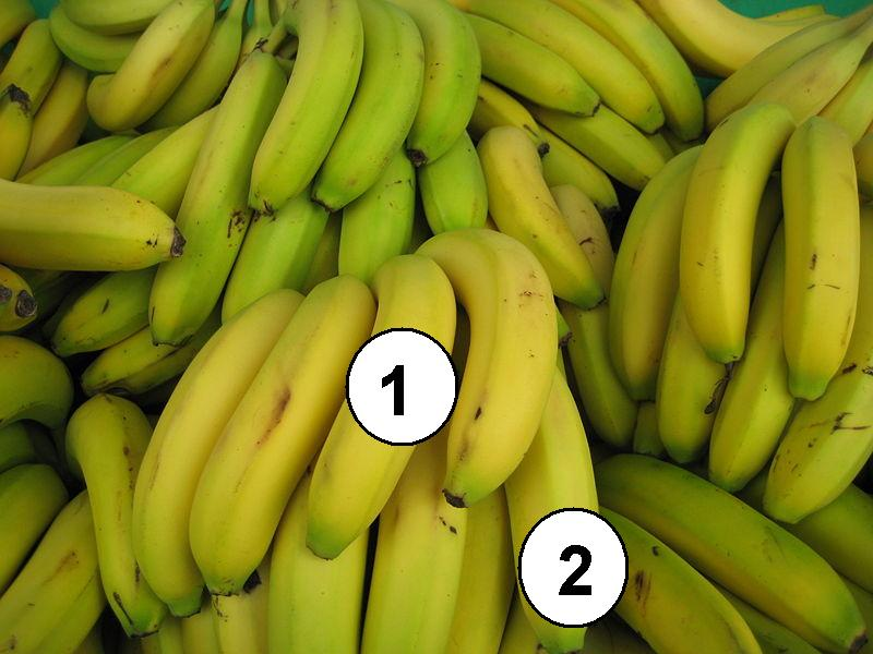 Bananas relevant for import into EU (marked)